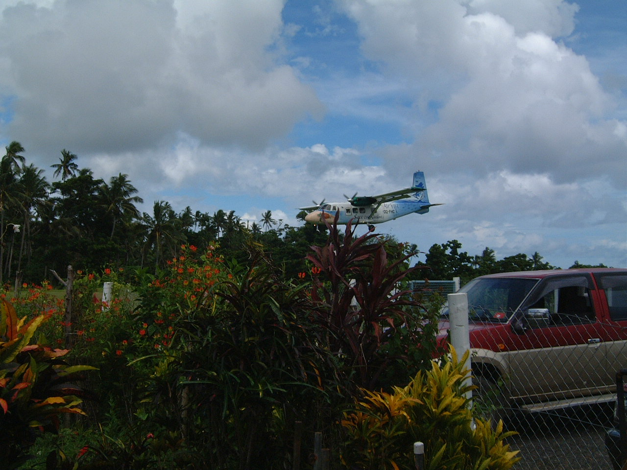 Air Fiji arriving at Matei Airport in Taveuni Fiji.